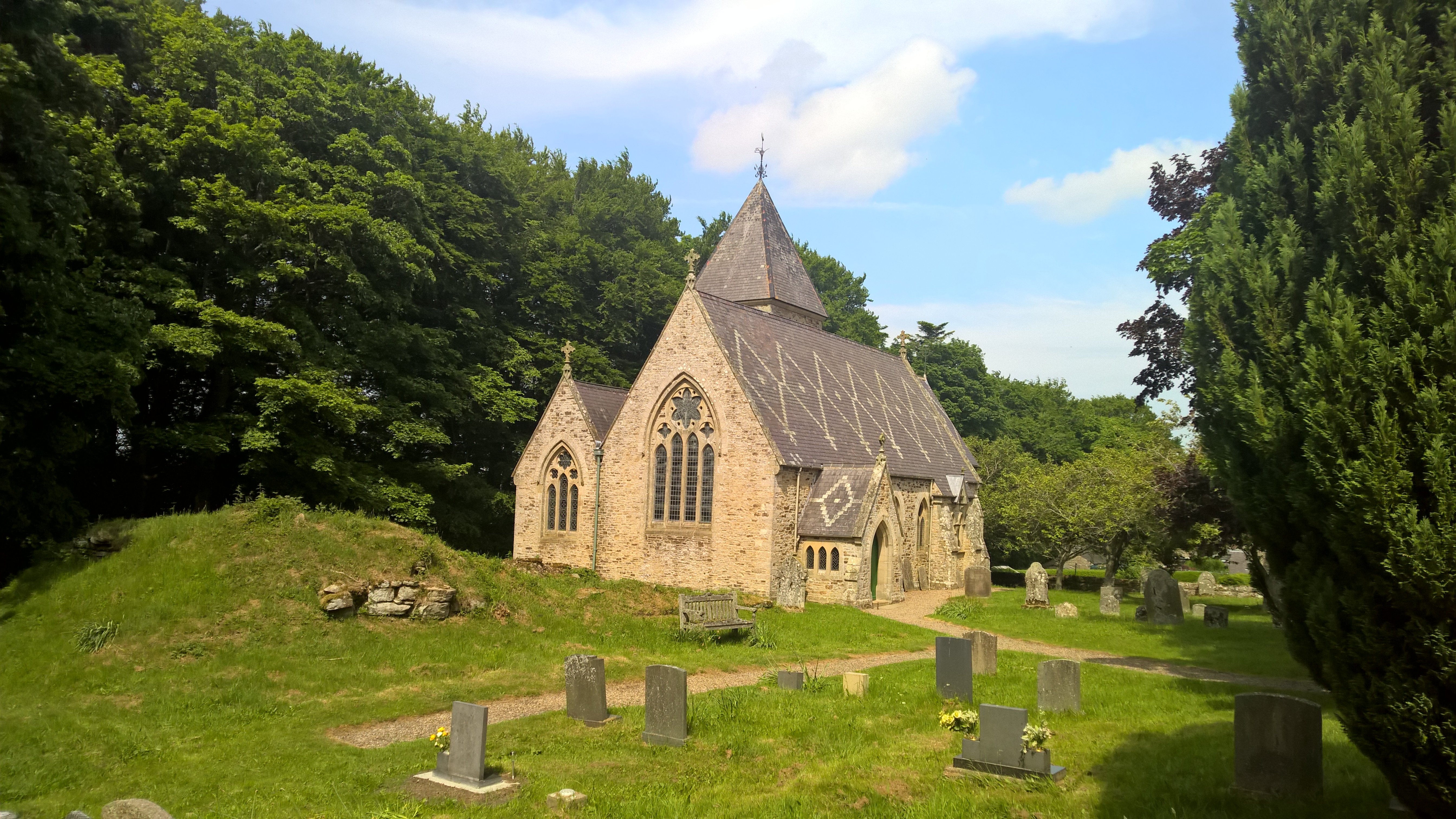 Parish church viewed from the west: 1862-3 rebuilding, by S.S. Teulon for Rev. Daniel Capper of Newbiggin, of 1781 church on medieval site. The ruins of a 16th-century pele tower are in the foreground.